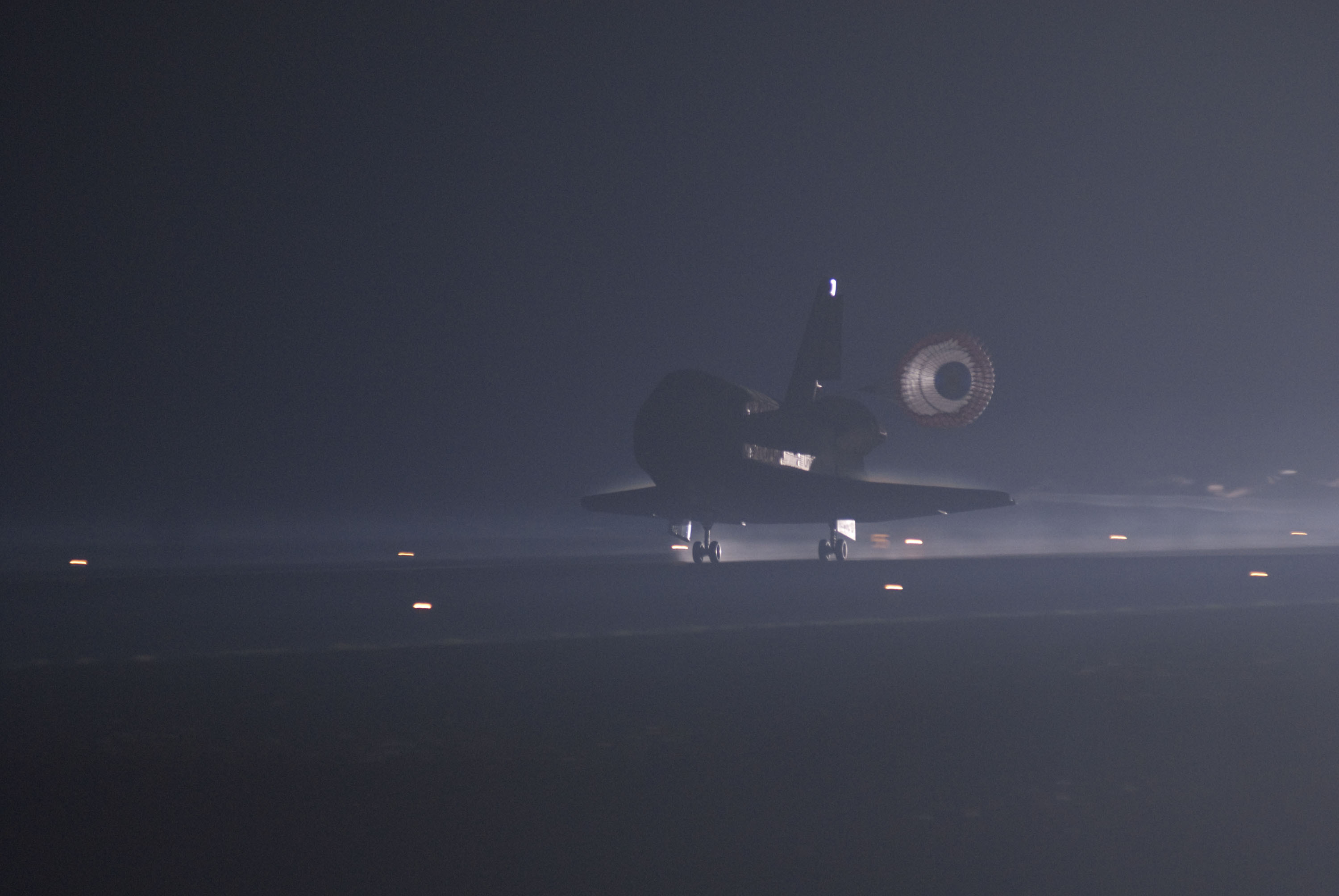 CAPE CANAVERAL, Fla. – Xenon lights illuminate space shuttle Atlantis' unfurled drag chute as the vehicle rolls to a stop on the Shuttle Landing Facility's Runway 15 at NASA's Kennedy Space Center in Florida for the final. Securing the space shuttle fleet's place in history, Atlantis marked the 26th nighttime landing of NASA's Space Shuttle Program and the 78th landing at Kennedy. Main gear touchdown was at 5:57:00 a.m. EDT, followed by nose gear touchdown at 5:57:20 a.m., and wheelstop at 5:57:54 a.m. On board are STS-135 Commander Chris Ferguson, Pilot Doug Hurley, and Mission Specialists Sandra Magnus and Rex Walheim. On the 37th shuttle mission to the International Space Station, STS-135 delivered more than 9,400 pounds of spare parts, equipment and supplies in the Raffaello multi-purpose logistics module that will sustain station operations for the next year. STS-135 was the 33rd and final flight for Atlantis, which has spent 307 days in space, orbited Earth 4,848 times and traveled 125,935,769 miles. For more information visit